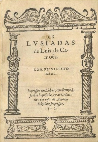 Front or title page of Os Lusiadas by Luís de Camões, published in 1572 in Lisbon, Portugal. The book is a Portuguese epic poem.